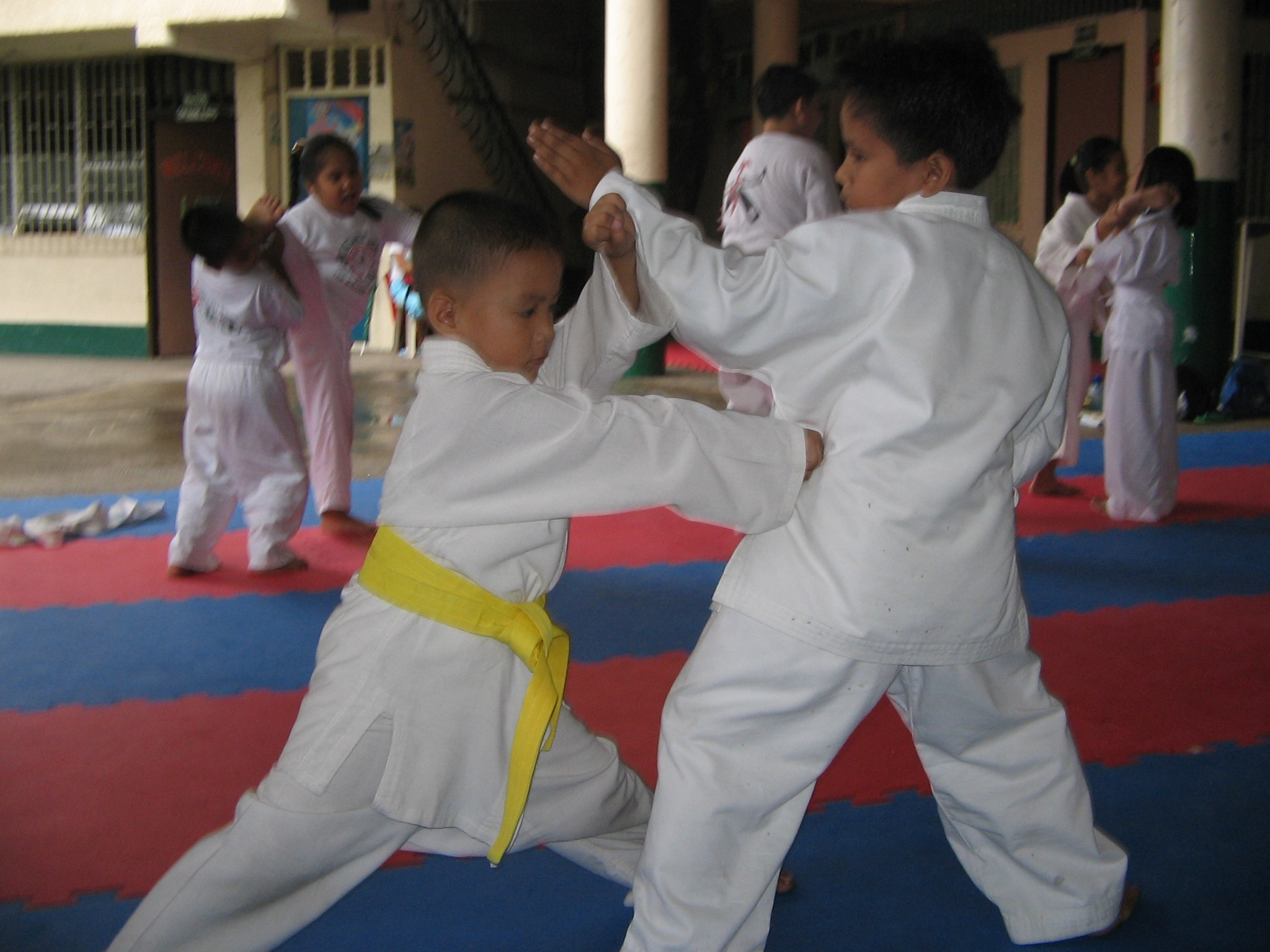 JJS Karate kids during training at Jack & Jill School Dojo in Bacolod City